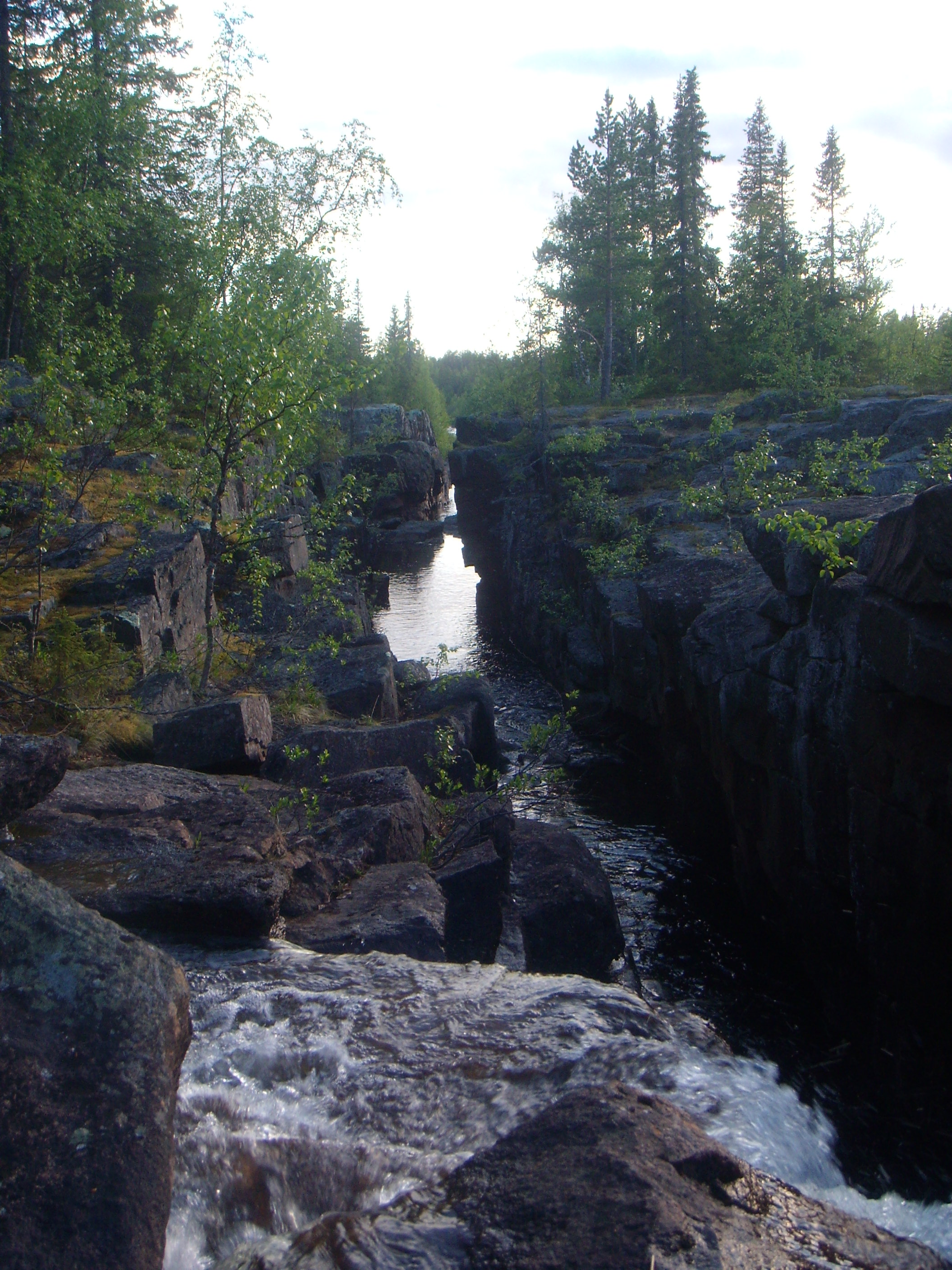 Parakkakurkio, Sweden